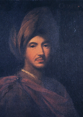 Portrait of Antoine Charles, Duke of Gramont